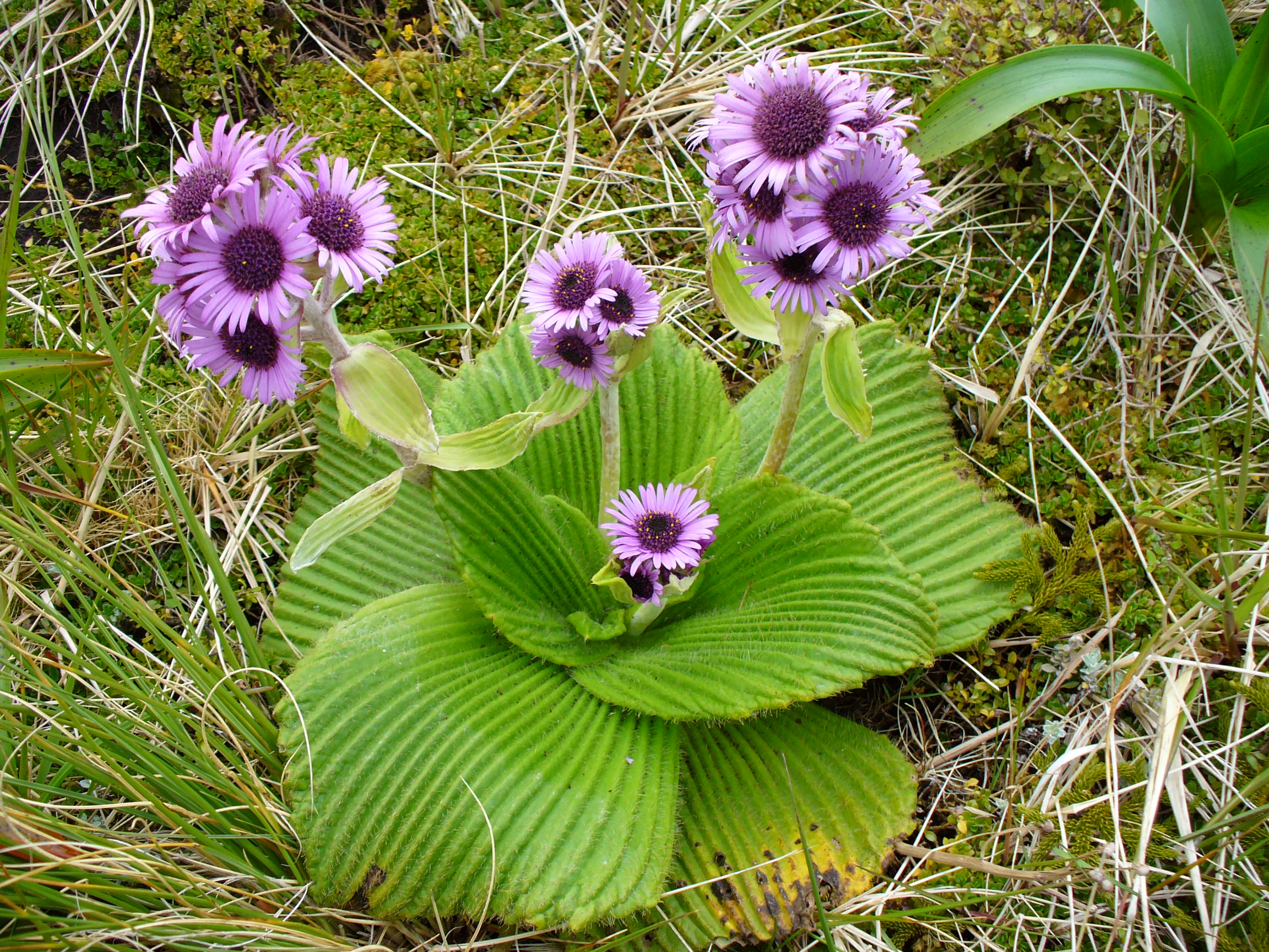 Pleurophyllum speciosum, part of a megaherb community growing on Campbell Island, one of the sub-antarctic islands of New Zealand. The strap-like leaves to the right belong to Bulbinella rossi. This photograph was taken by and originally posted to flikr by Twiddleblatt, under the title 'Pleurophyllum speciosum daisy'.